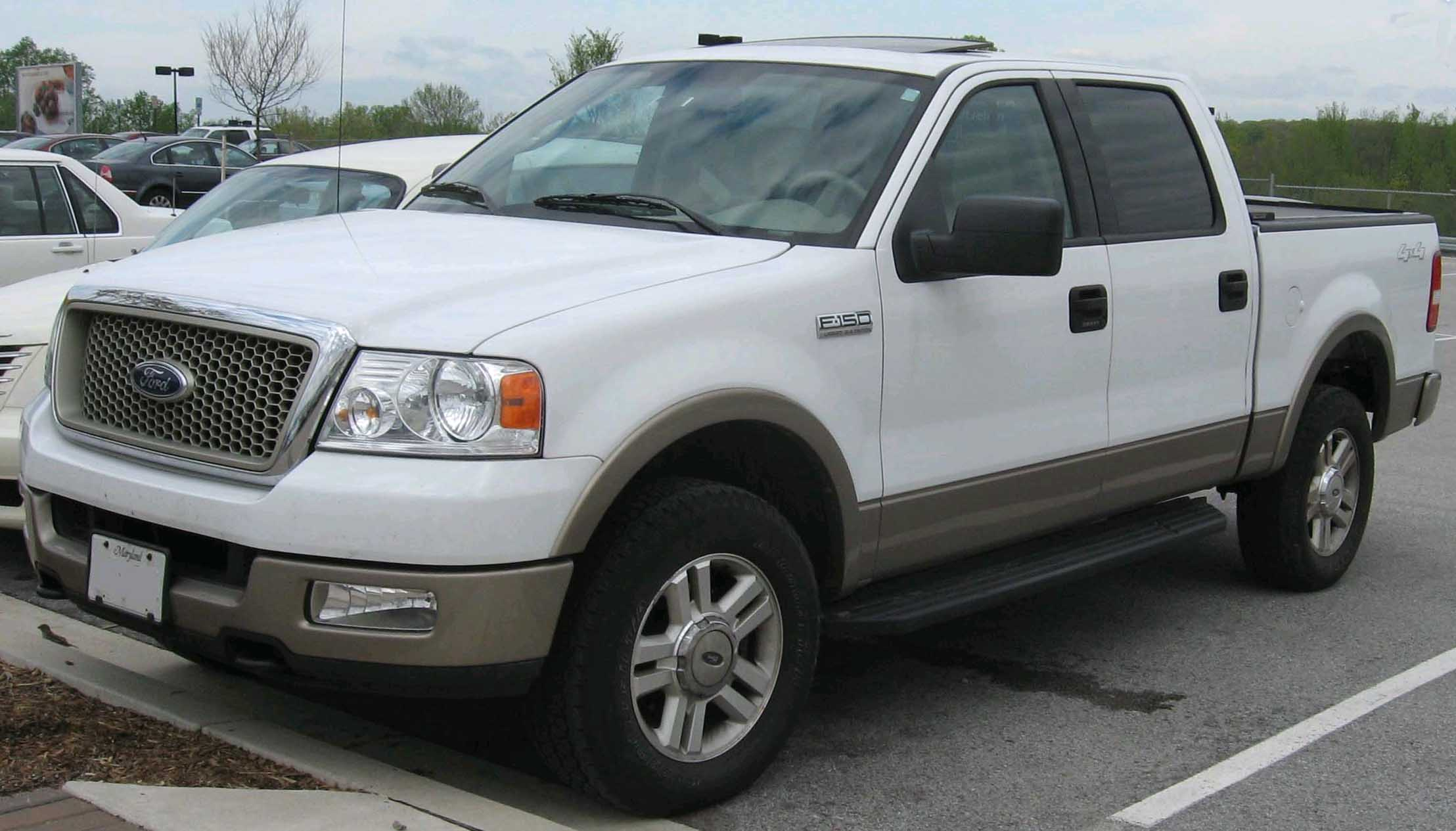 2004-2006 Ford F-150 photographed in College Park, Maryland, USA.